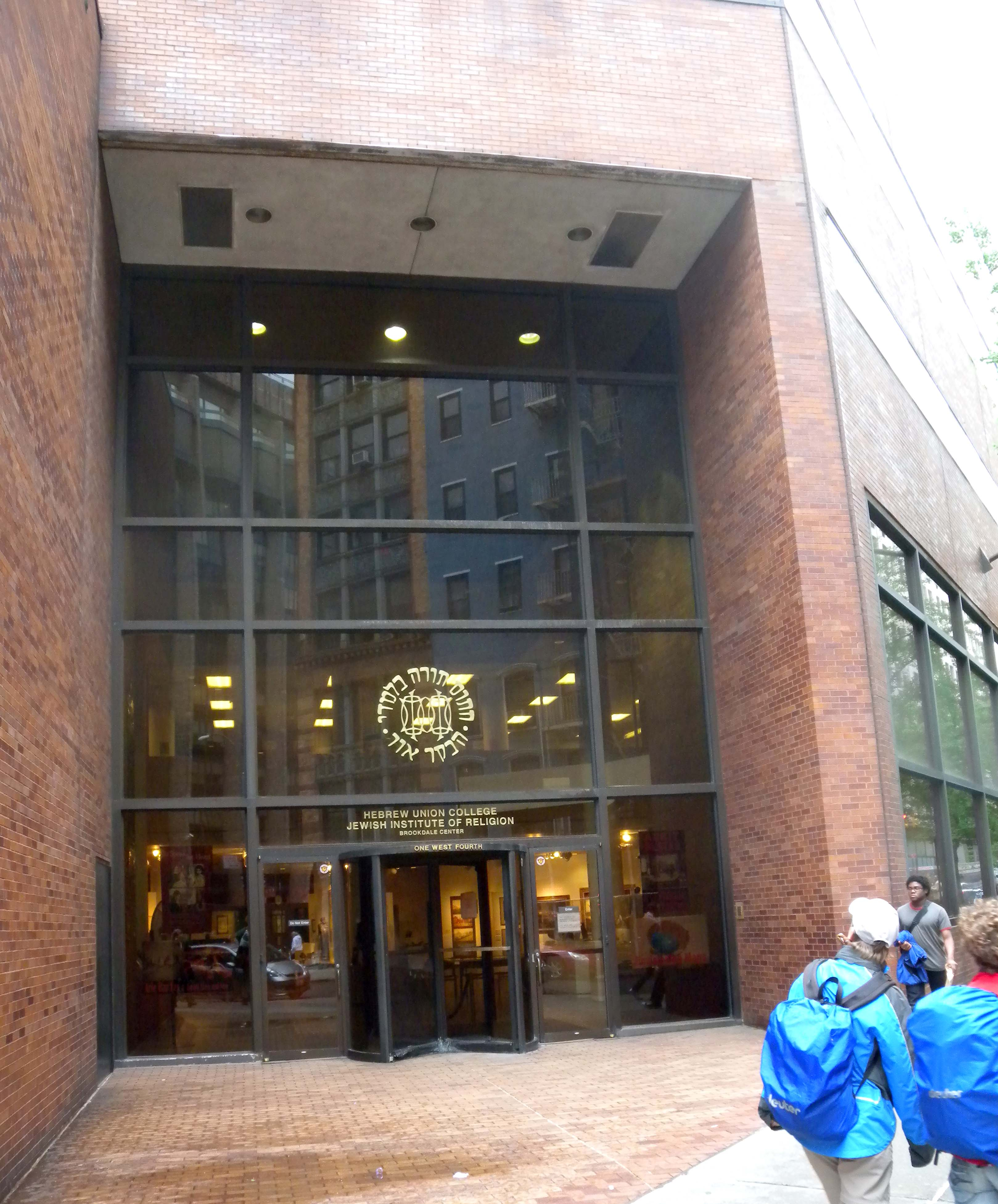 Door of Hebrew Union College on West 4th